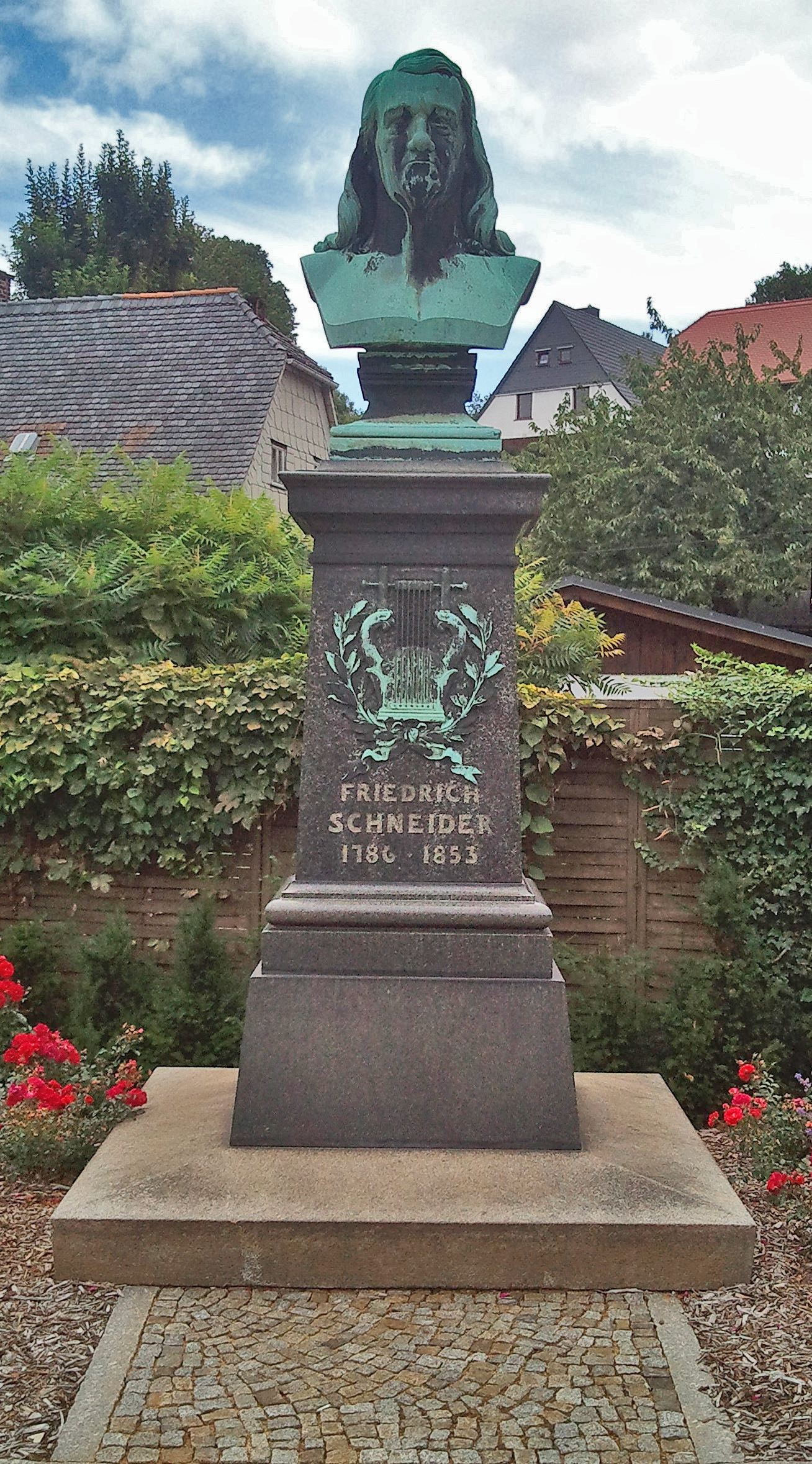 Memorial of Friedrich Schneider in Waltersdorf